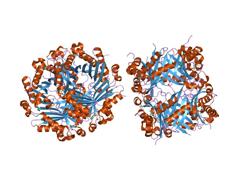 Cartoon representation of the molecular structure of protein registered with 1sql code.